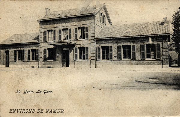 Station from Yvoir